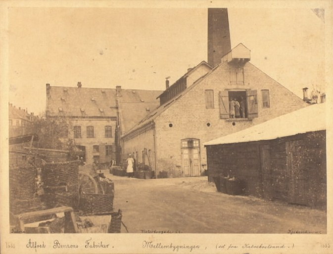 Alfred Benzon's factory (today's Nomeco) at Vesterbrogade 62 in Copenhagen, 1883.